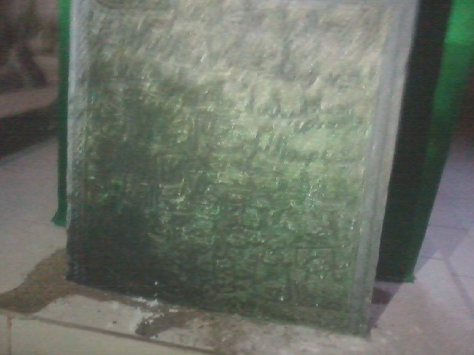 Inscription at grave